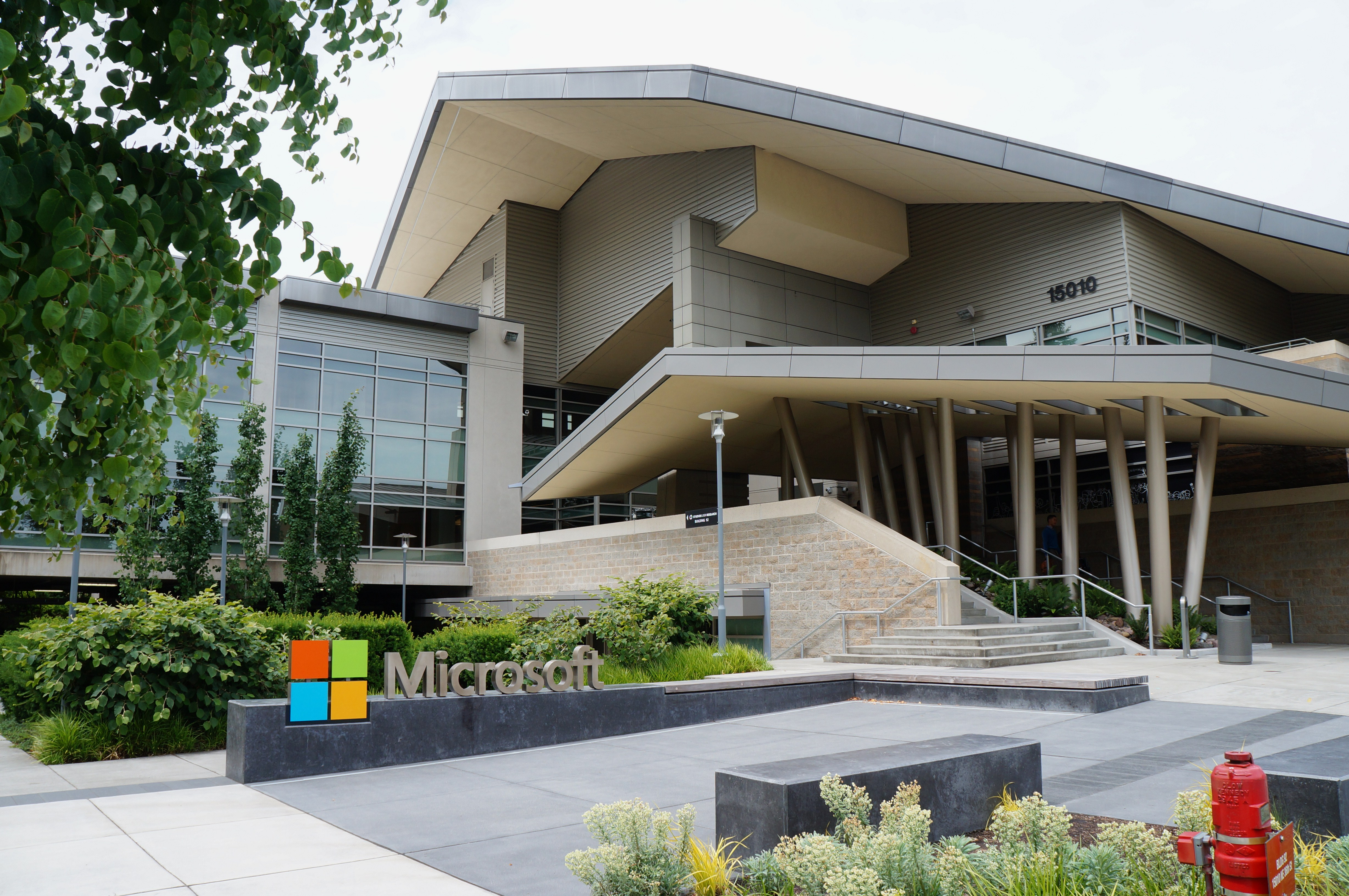 Building 92 of Microsoft Redmond Campus